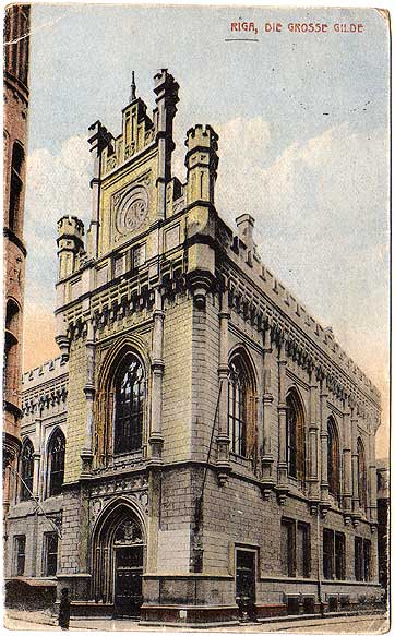 Vintage picture postcard showing the Large Guild building in Riga, Latvia